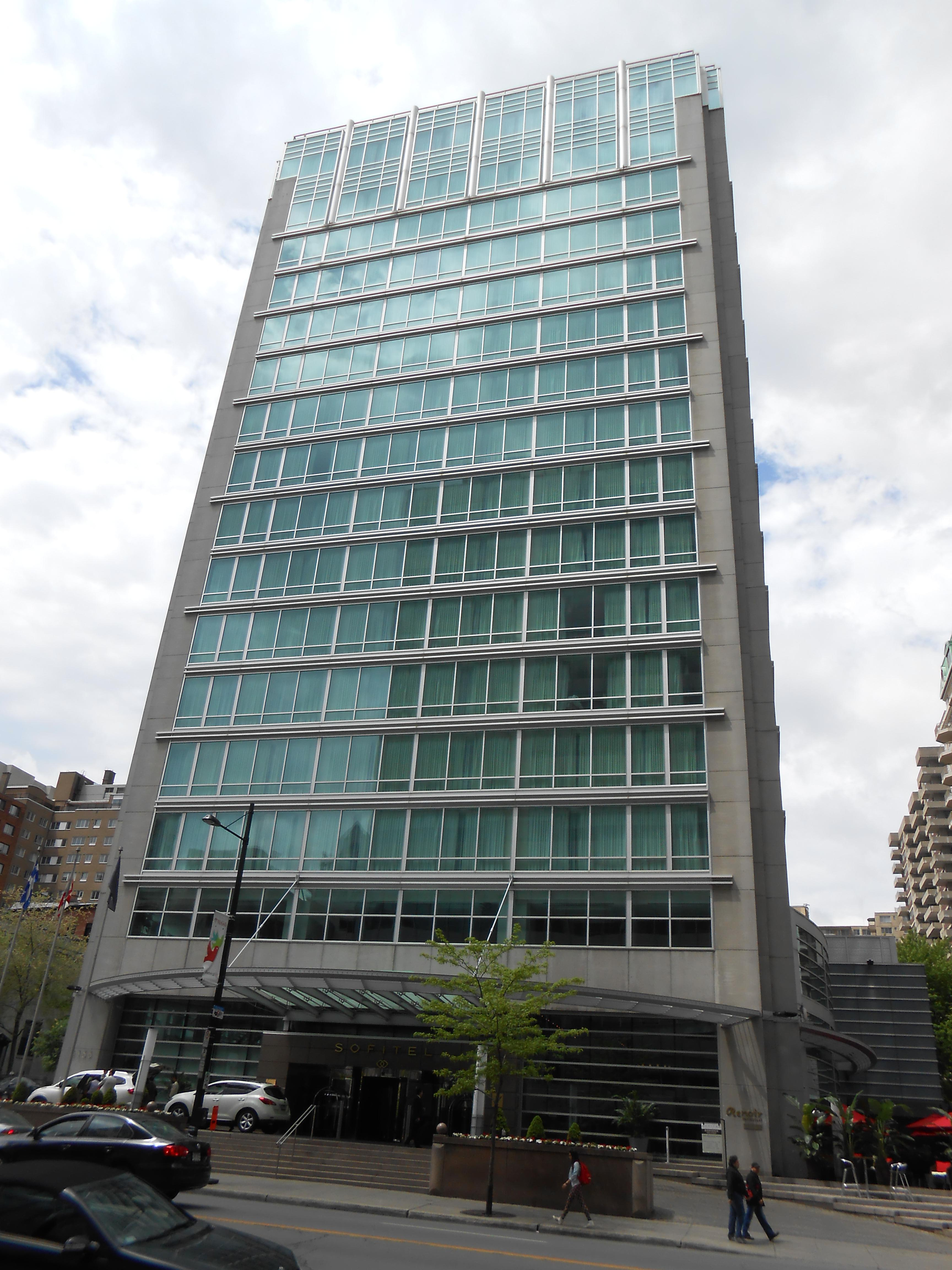 Hotel Sofitel Montréal Golden Mile, 1155 Sherbrooke Street West / Stanley, Montreal, Quebec, Canada